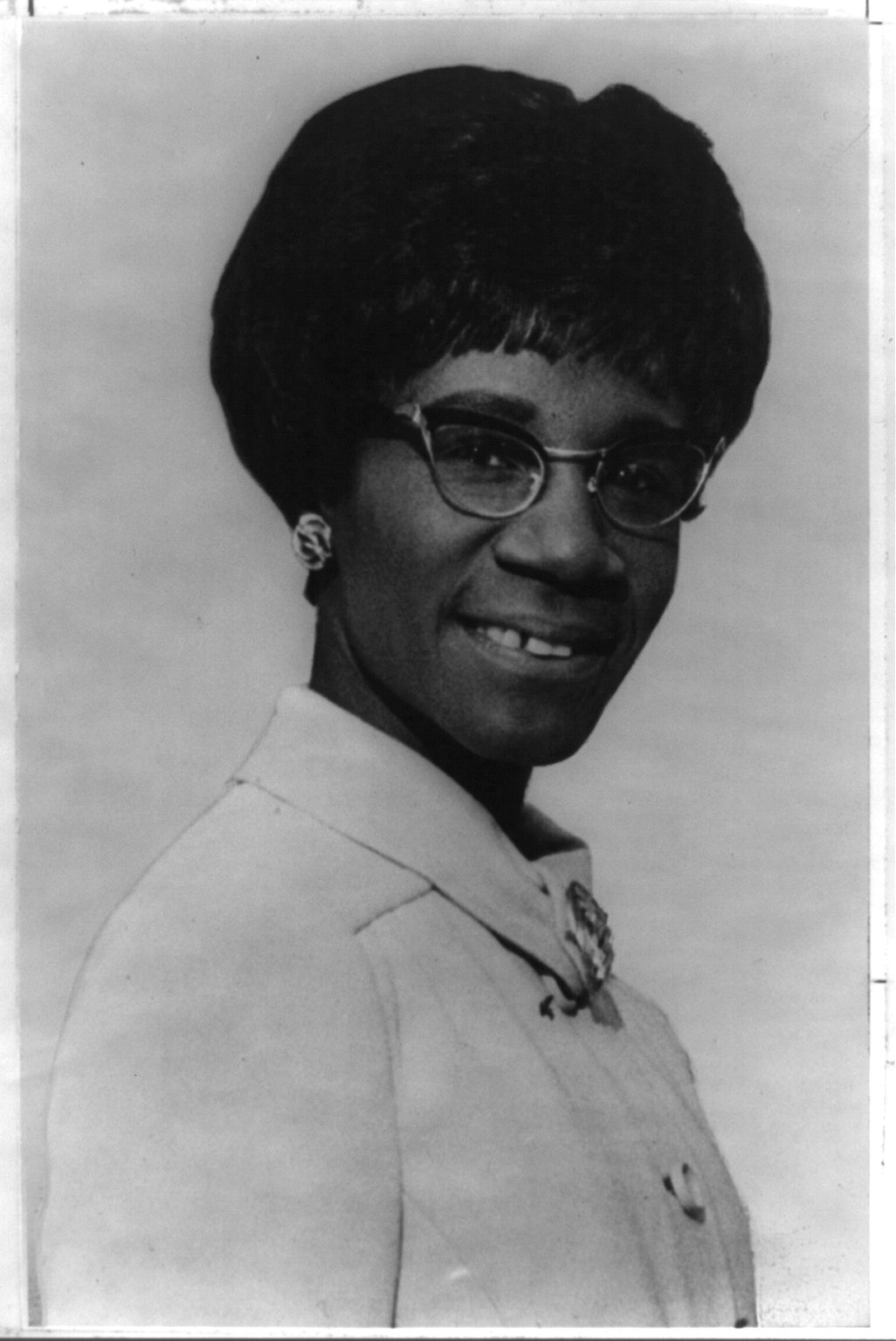 Title: Shirley Chisholm Abstract/medium: 1 photographic print.